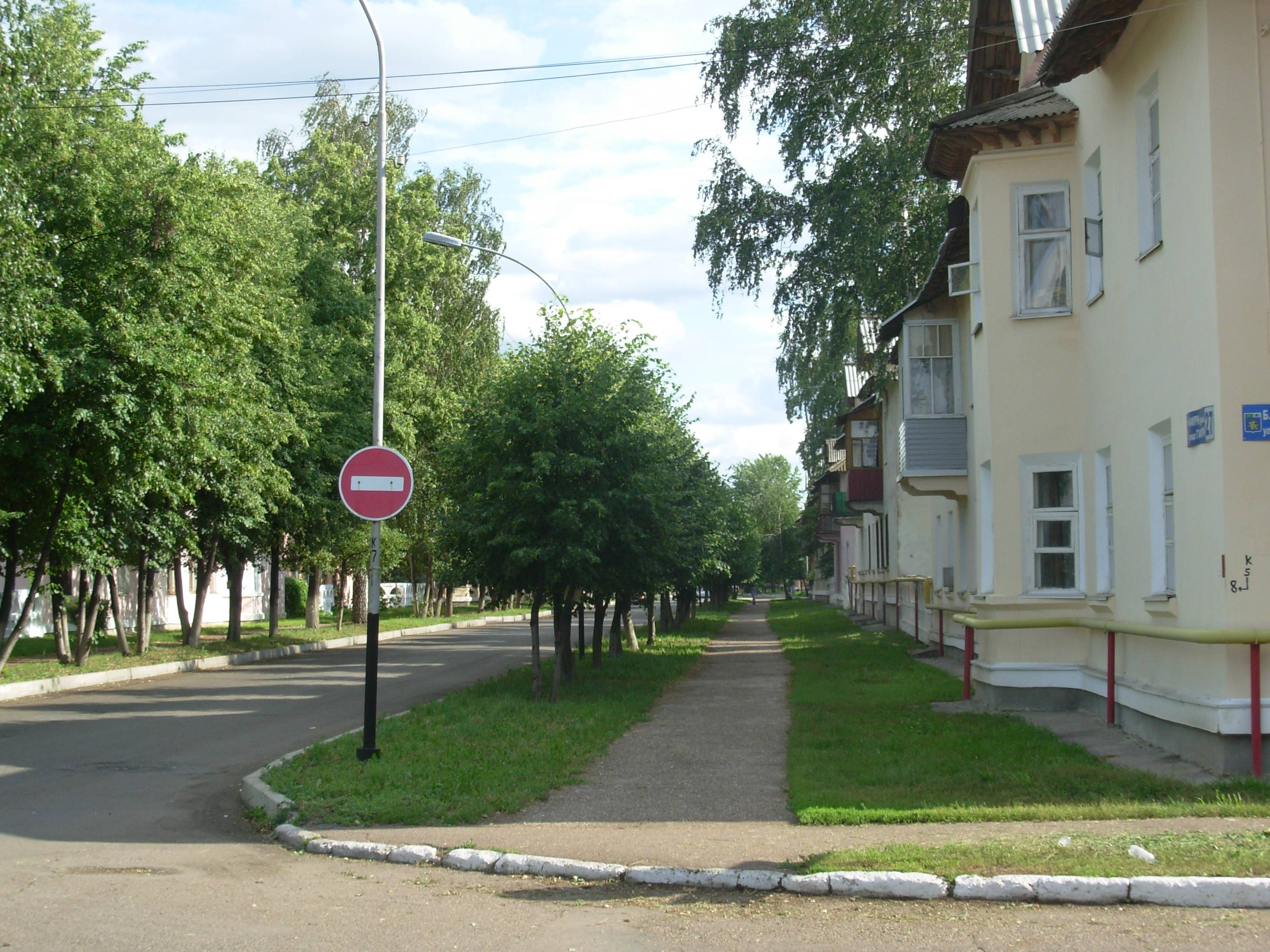 gafuri street Salavat